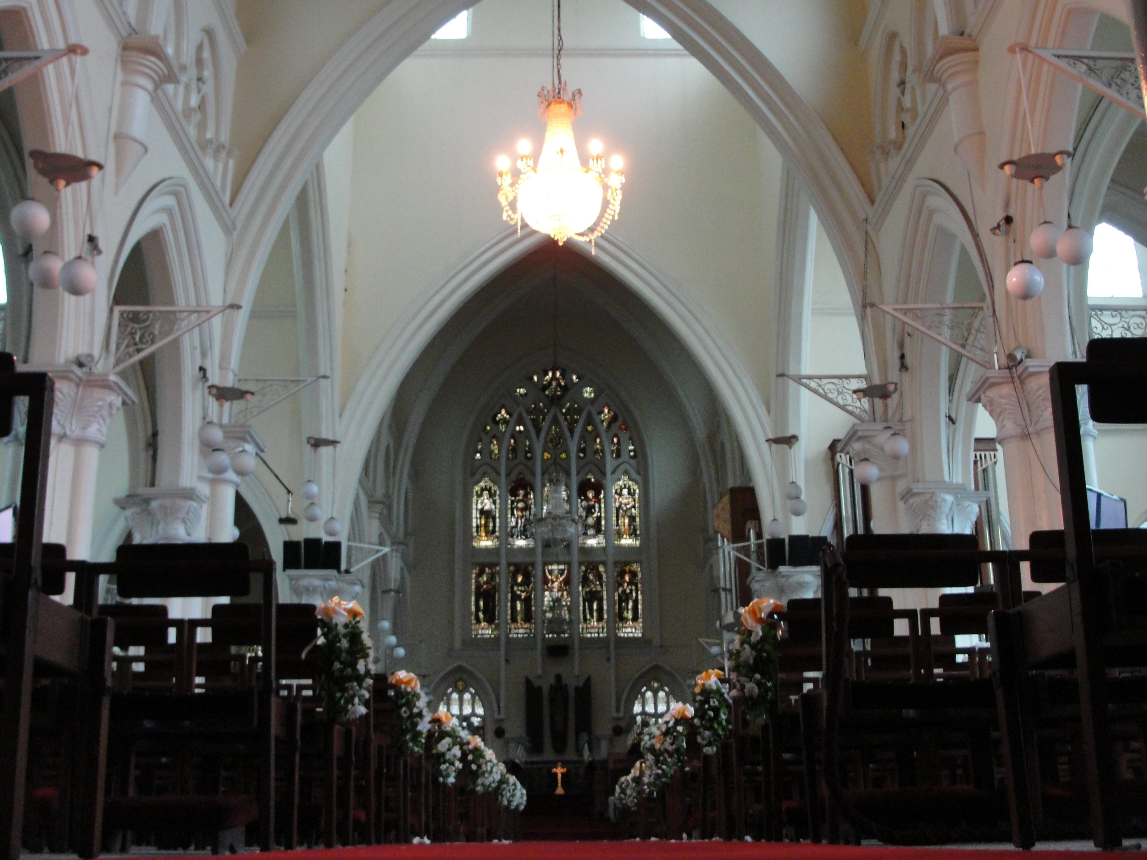 Christ Church Cathedral, Lagos, Nigeria